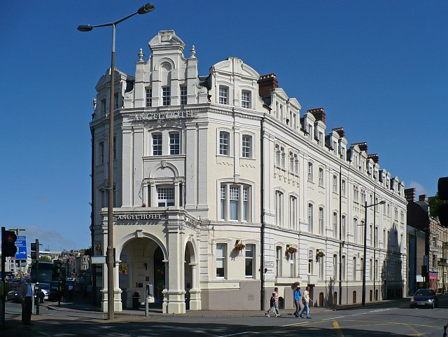 Angel Hotel At the junction of Castle Street and Westgate Street.